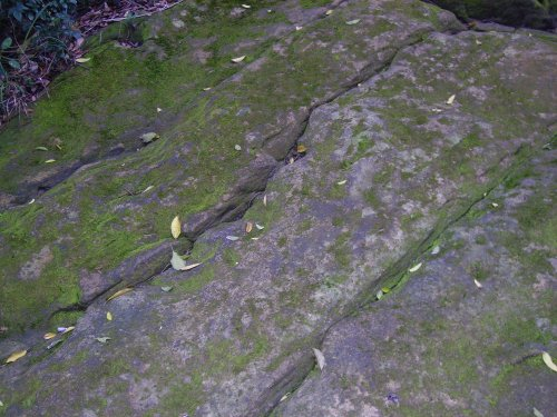 Chisunpark, Taipei.